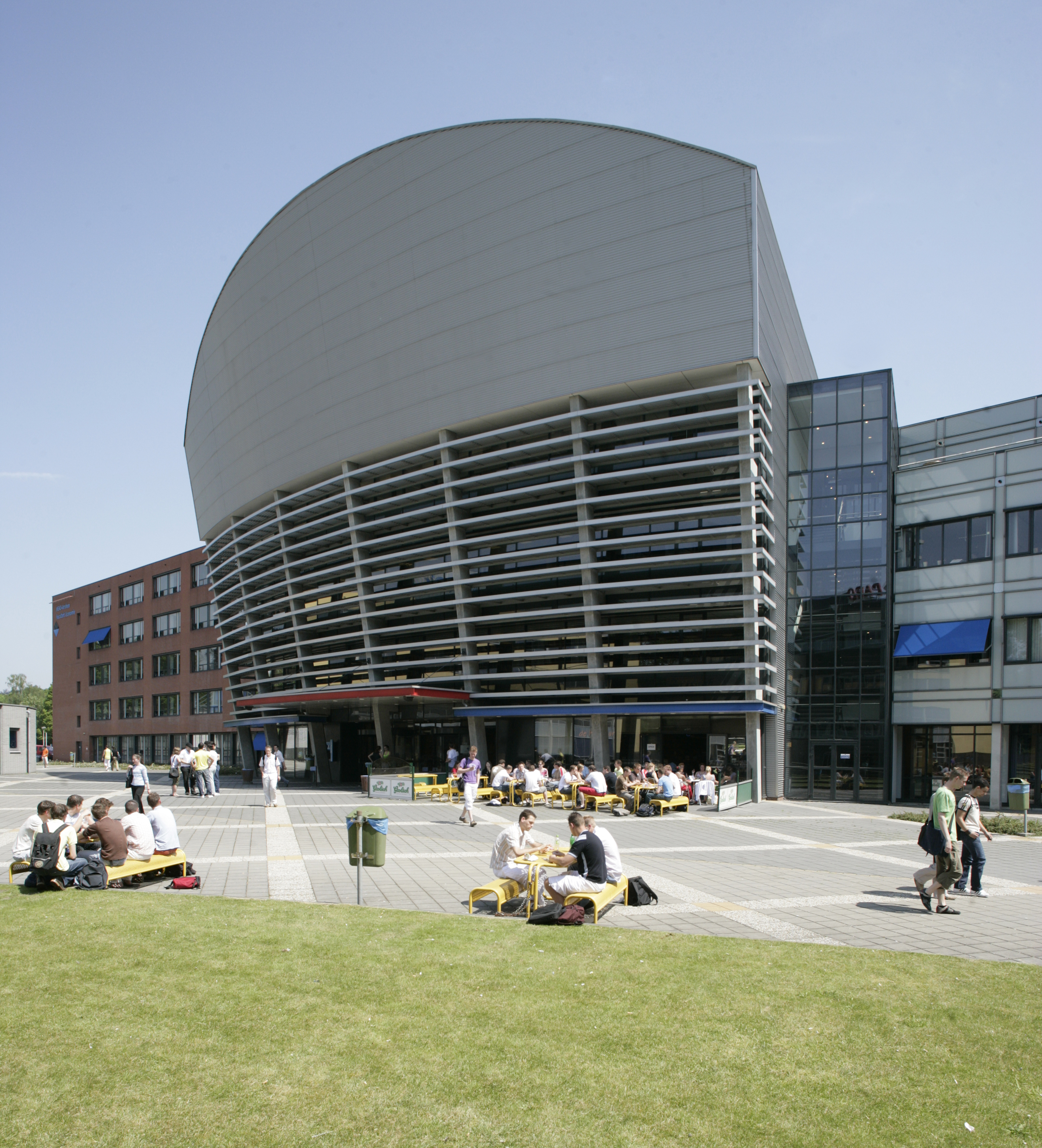 Arnhem Business School building